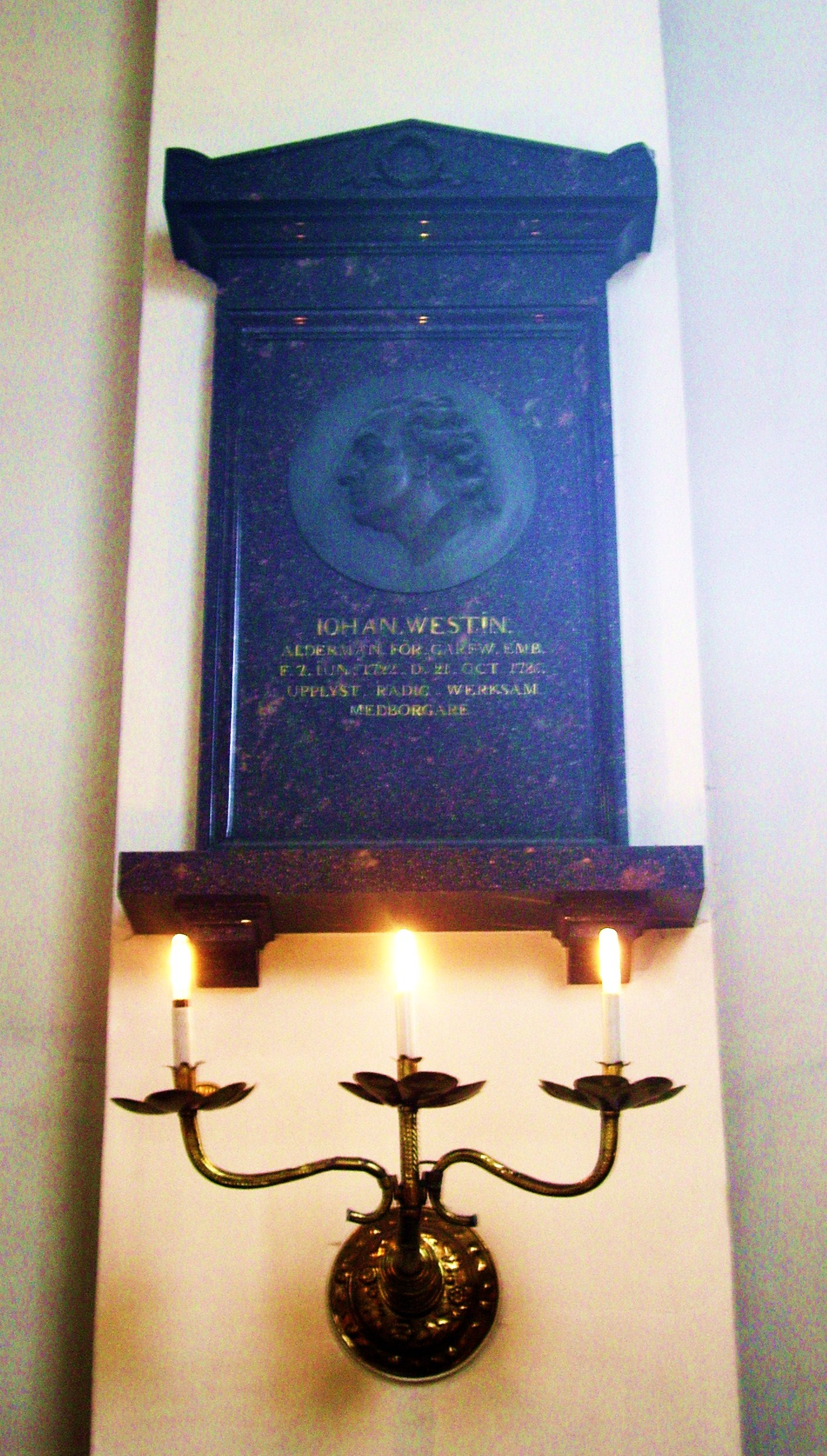 Picture of Johan Westin's grave at Klara kyrka in Stockholm